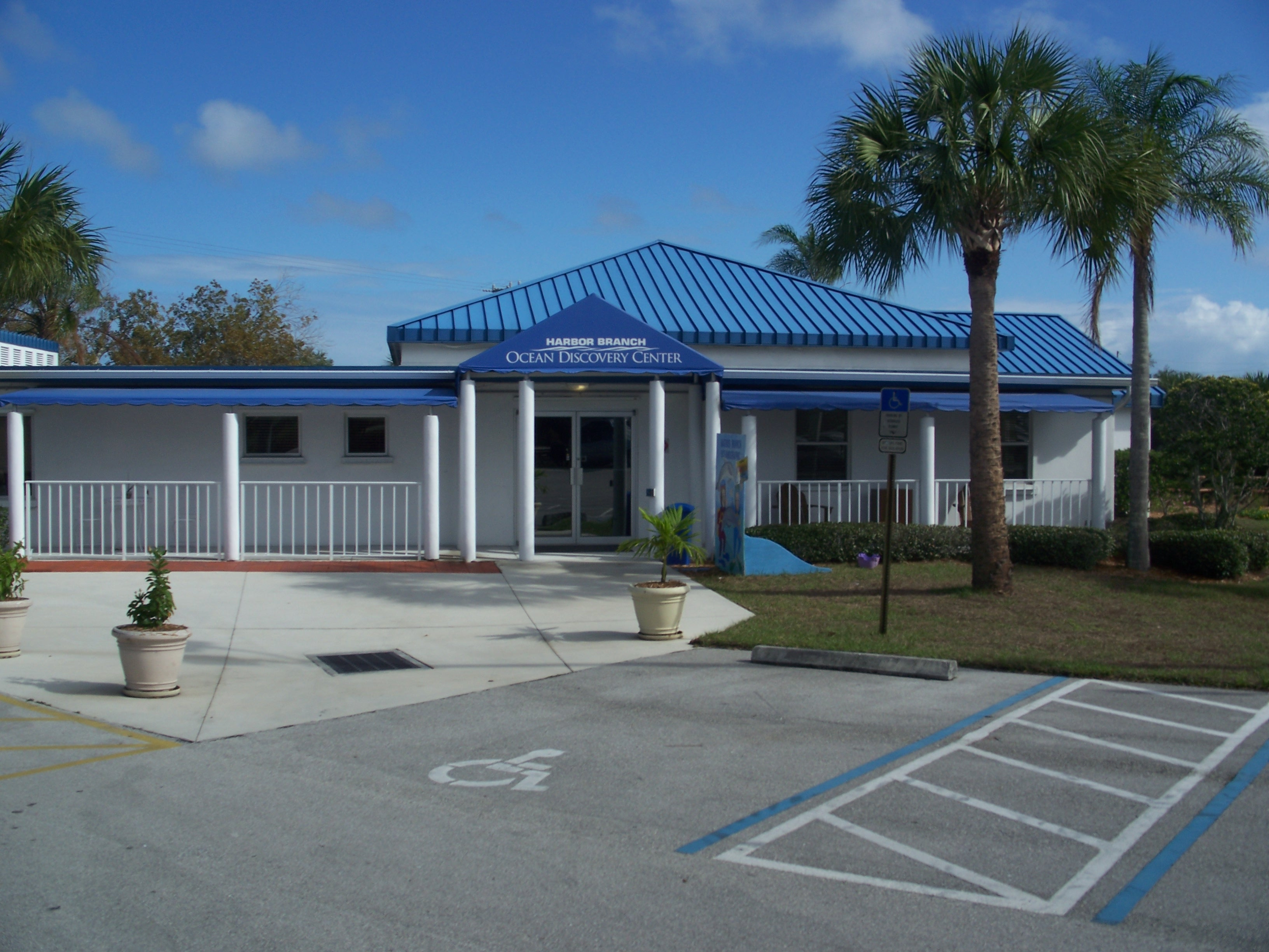 Fort Pierce, Florida: Harbor Branch Oceanographic Institution: Ocean Discovery Center